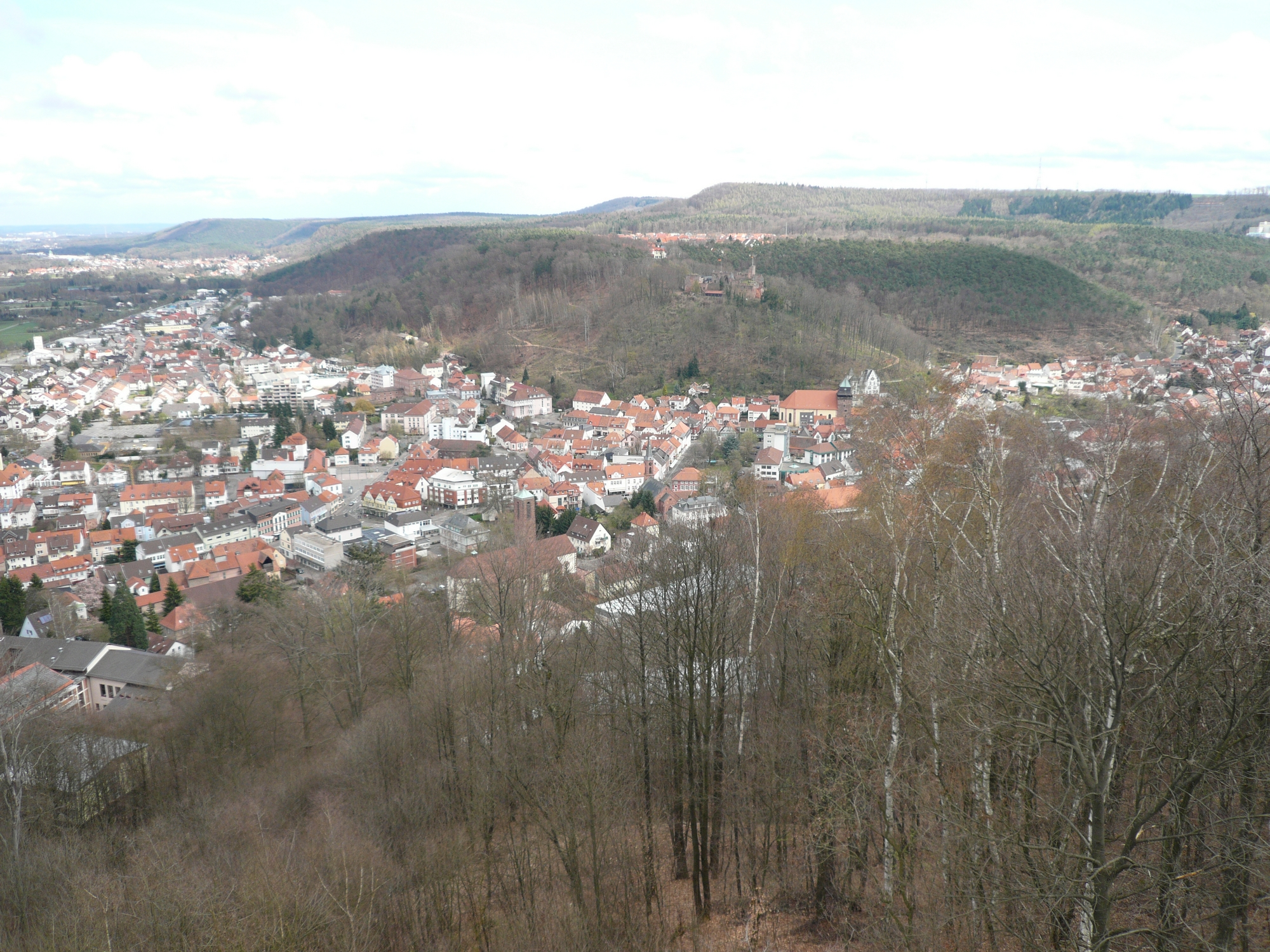 View on the town of Landstuhl